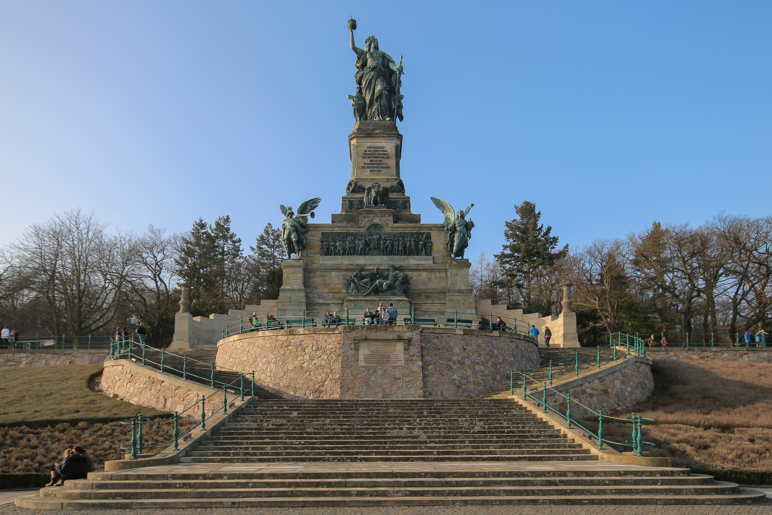 The Niederwalddenkmal is a monument located near Rüdesheim am Rhein von der unteren Plattform aus.